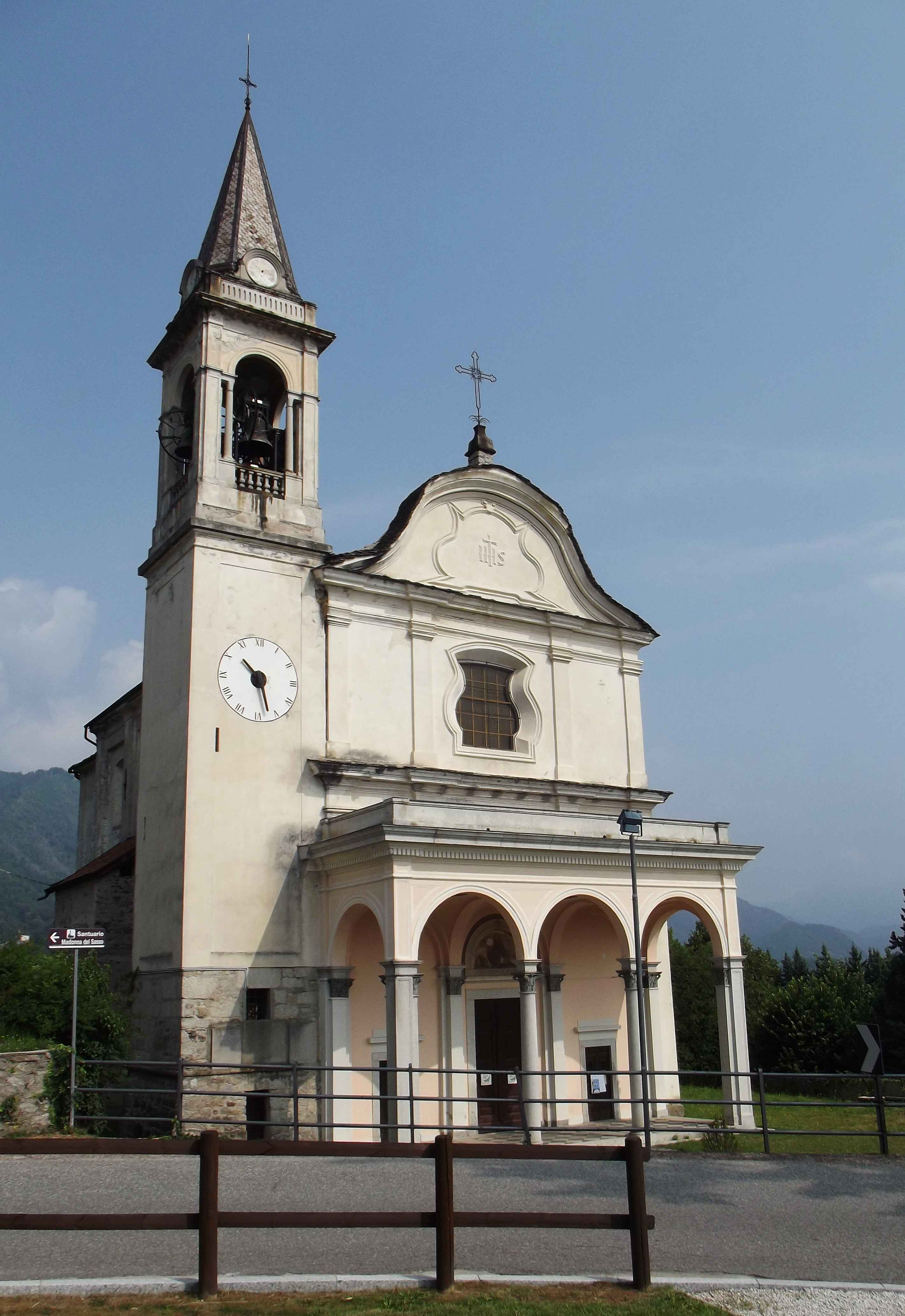 Artò (Madonna del Sasso, VB, Italy): Saint Bernardino parish church